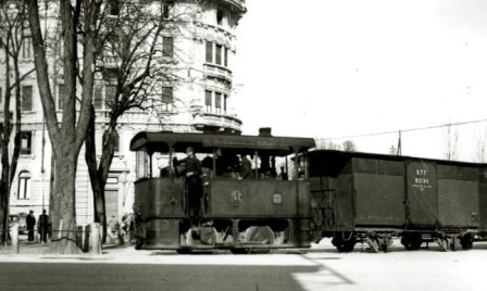 Locomotiva SFT 105 in viale Matteotti nel 1932